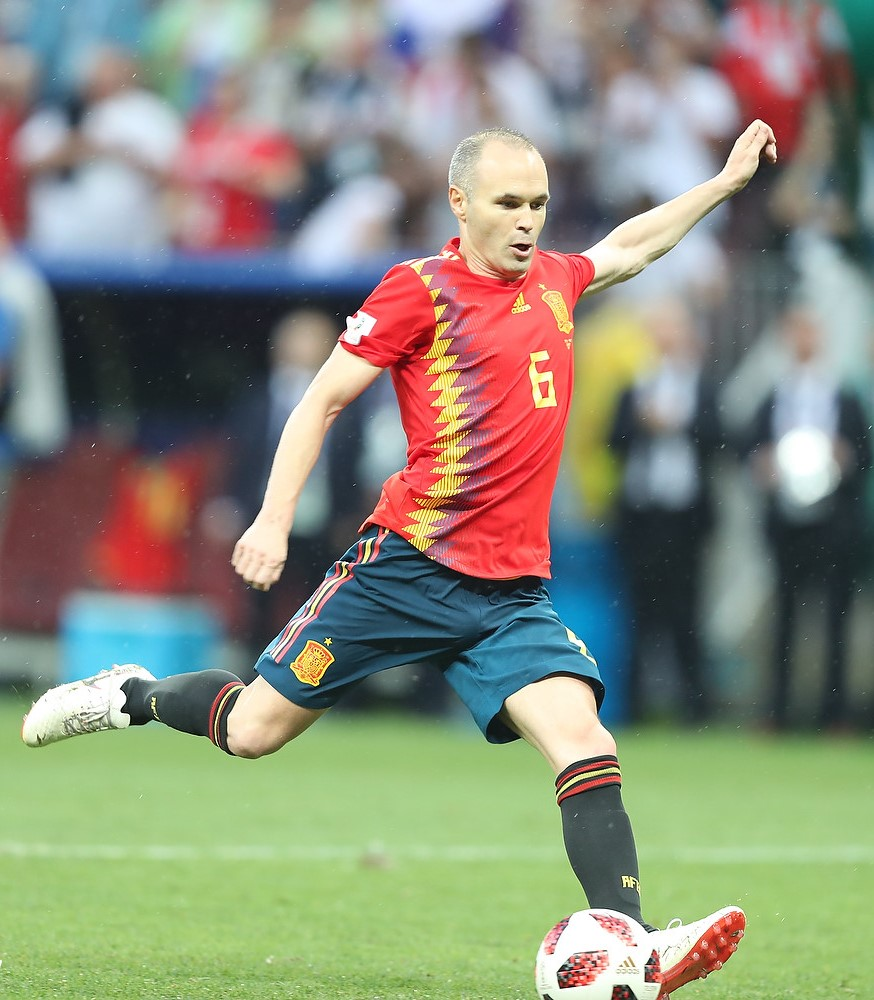 Andrés Iniesta